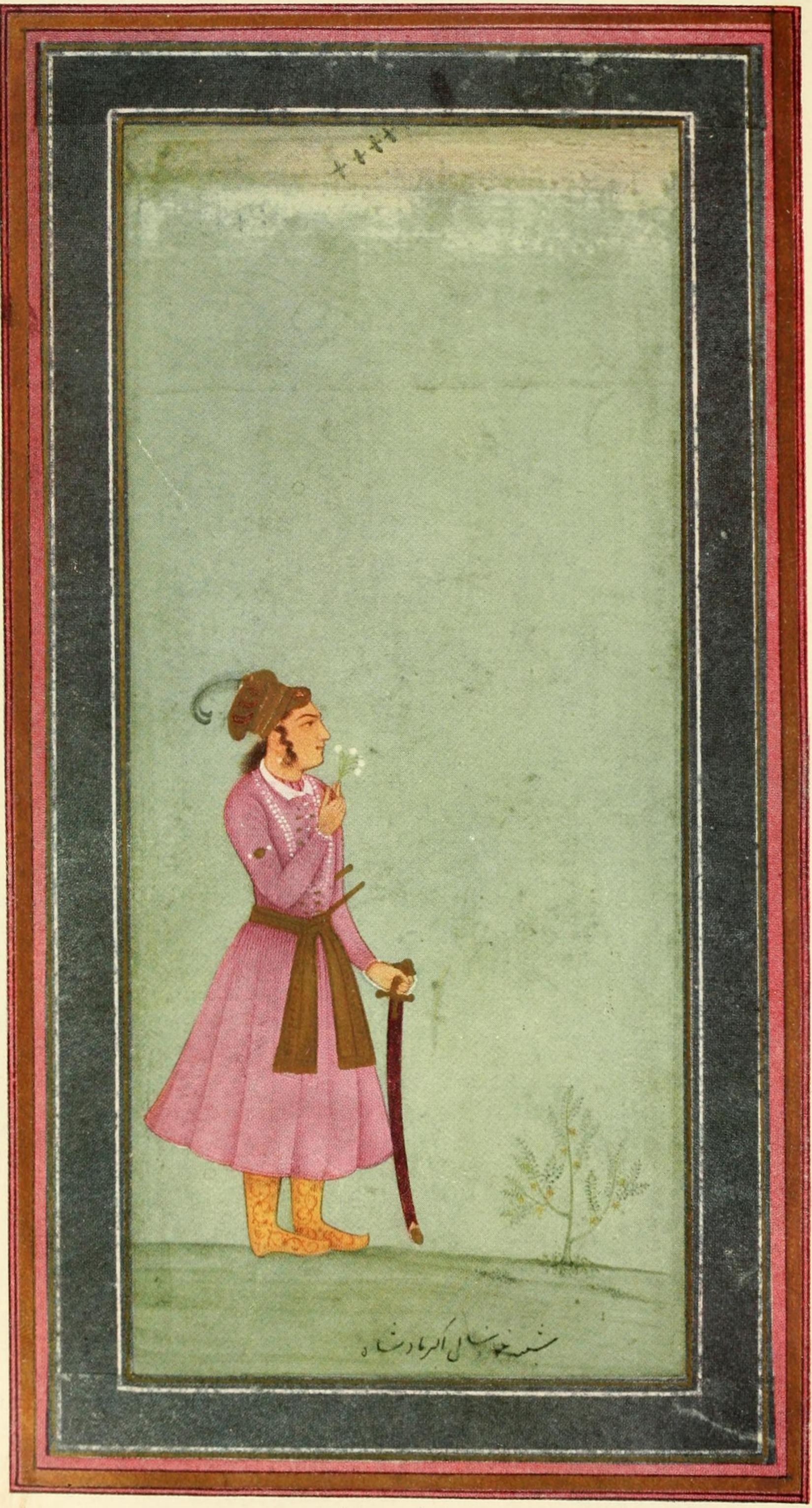 painting represents Akbar around 1557 AD